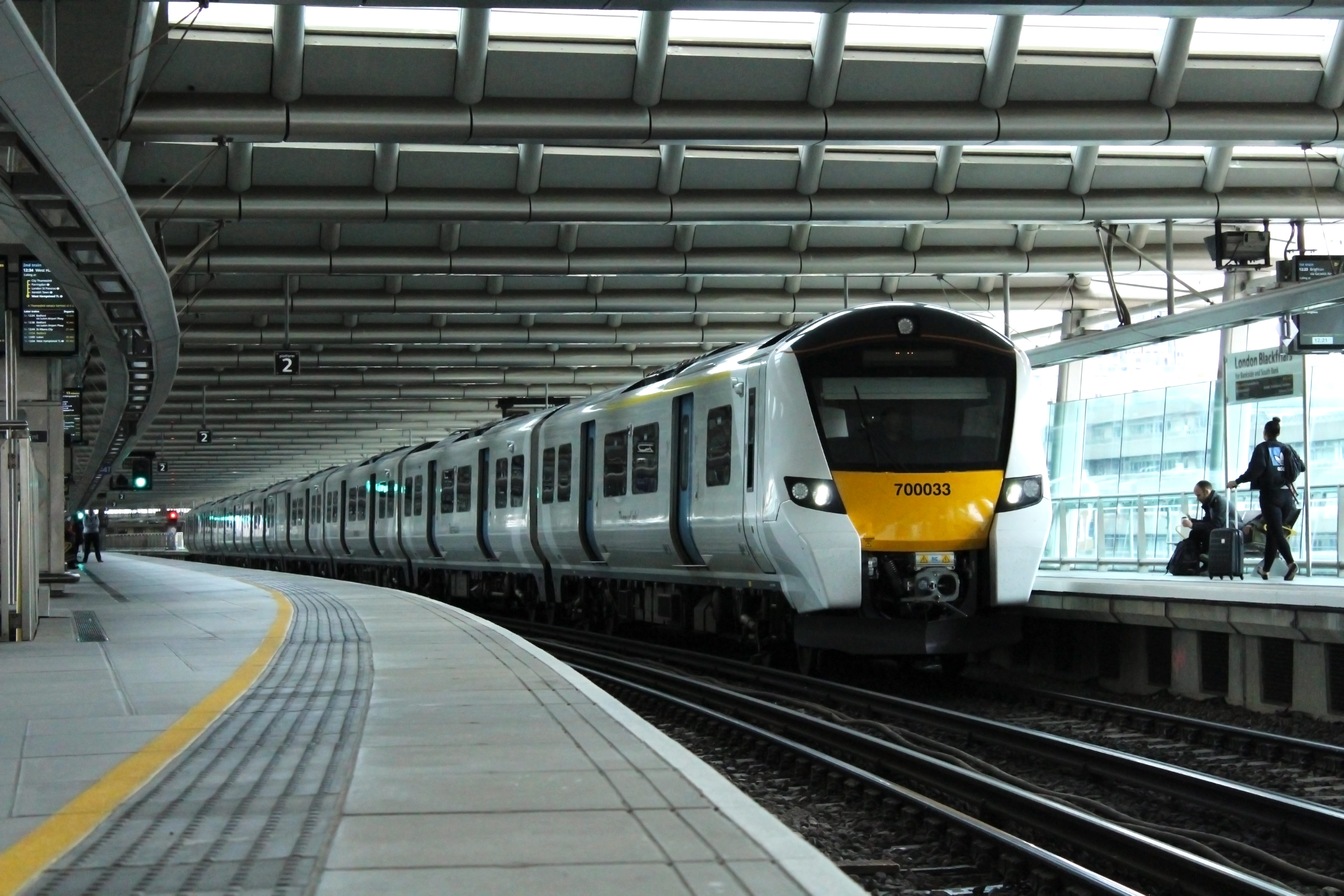 Class 700033 at Blackfriars